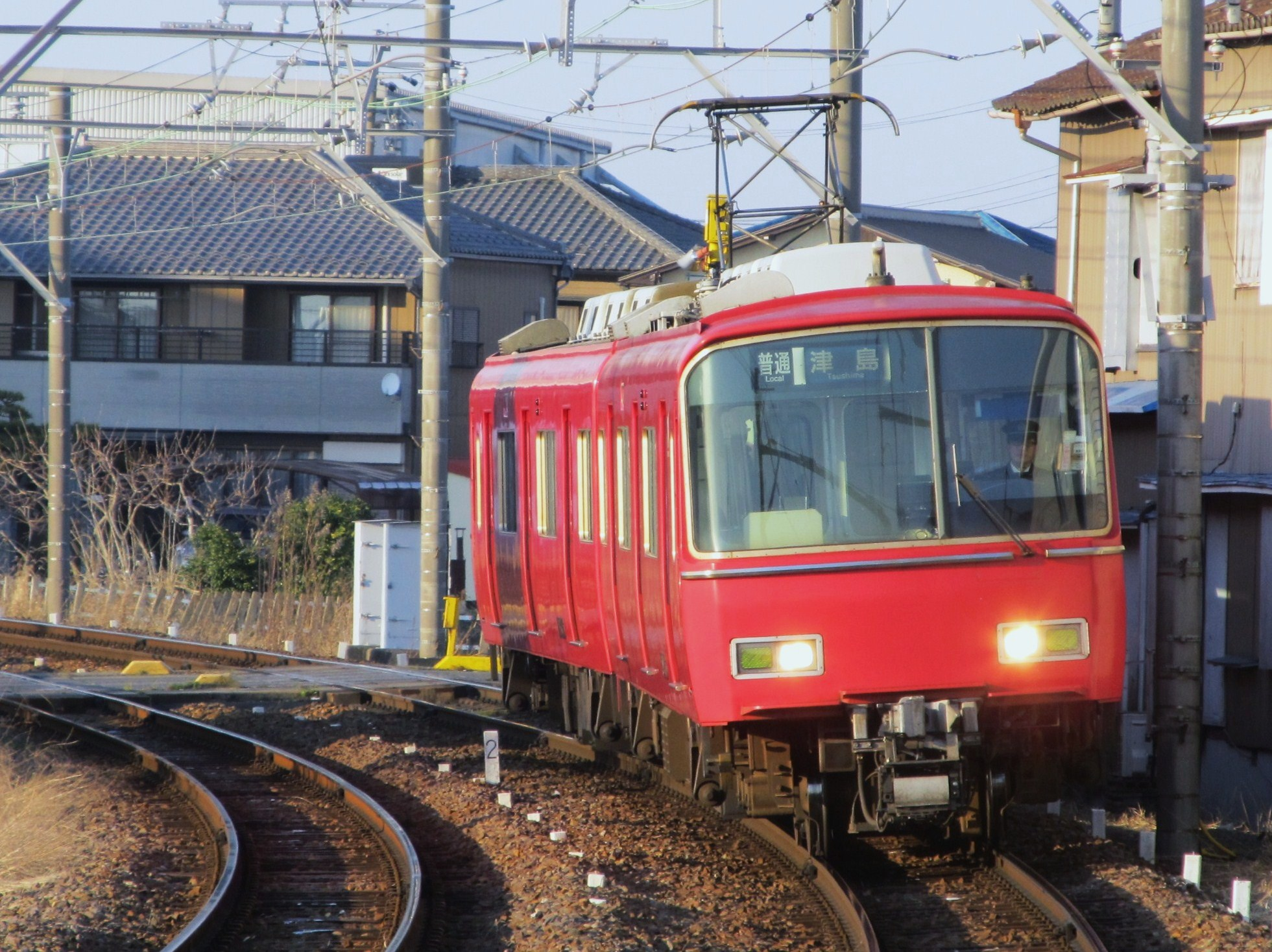 Meitetsu 6800 series. Bound for Tsushima.